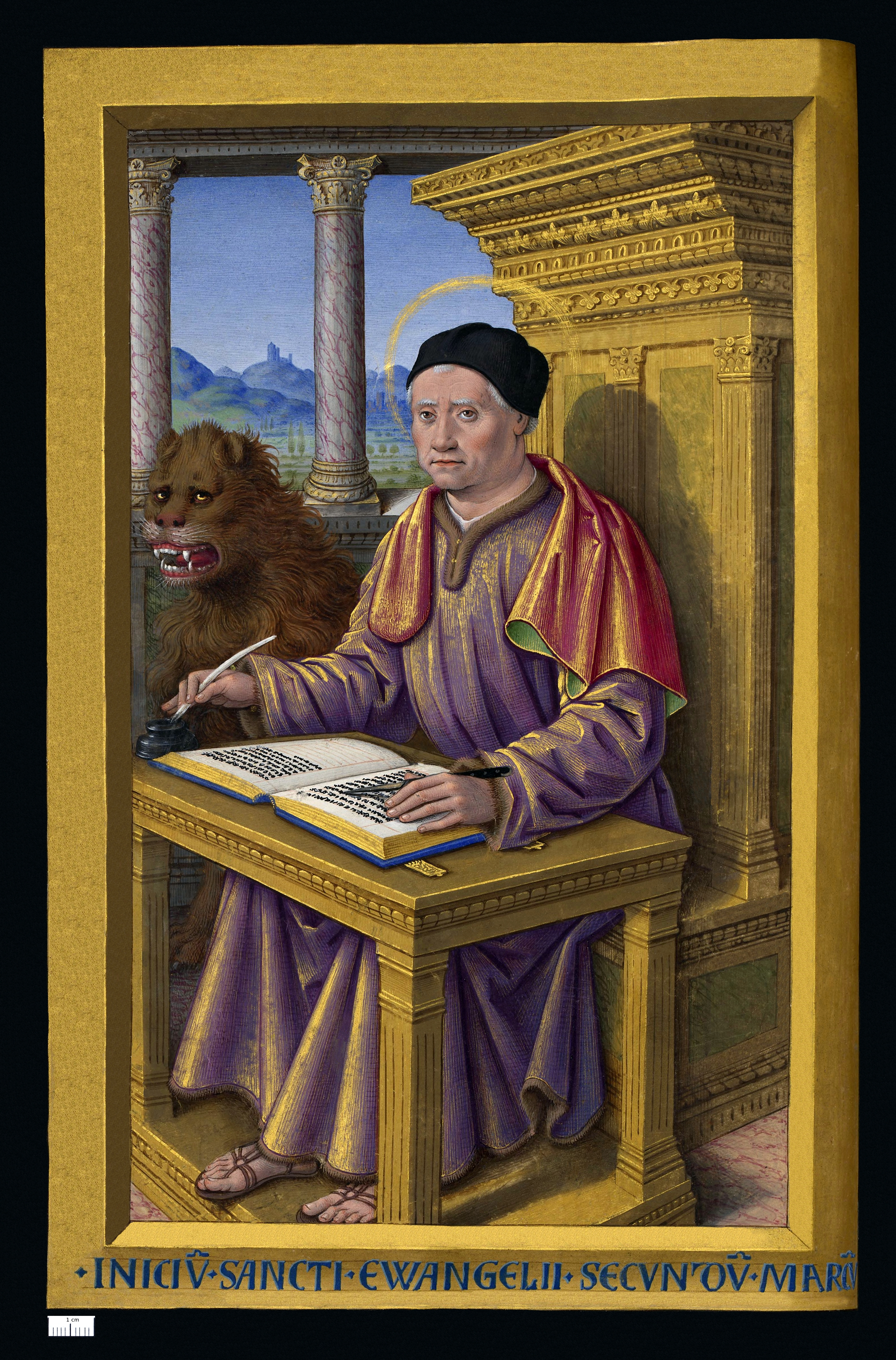 Mark the Evangelist, miniature from the Grandes Heures of Anne of Brittany, Queen consort of France (1477-1514).